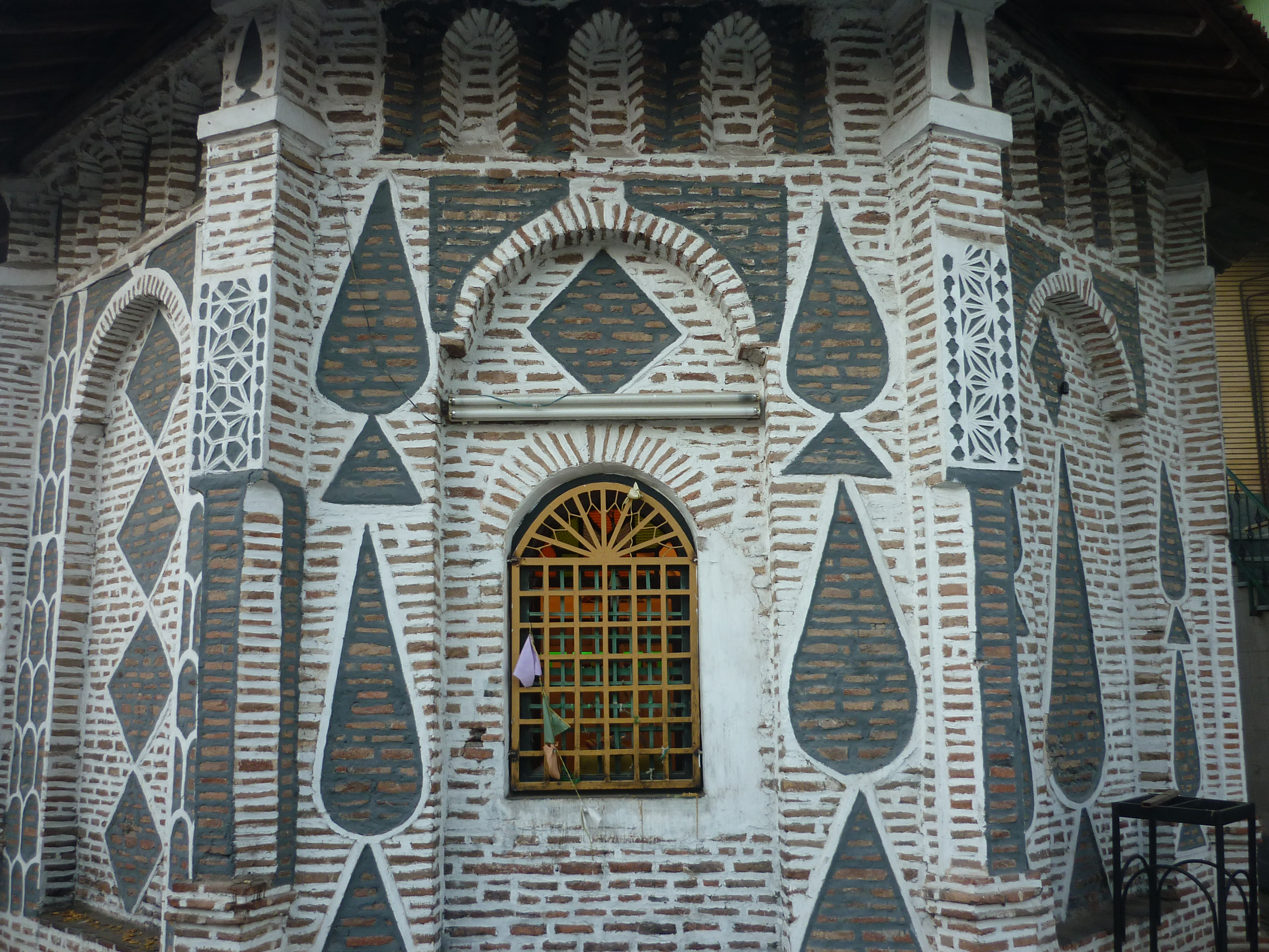 tower imamzadeh Qasem